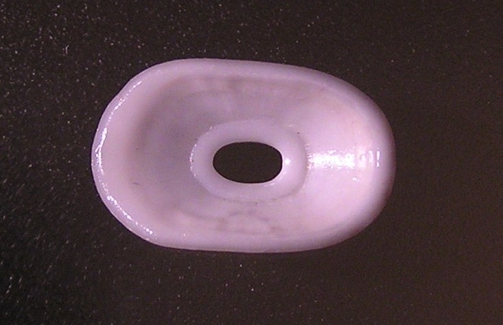 Amblychilepas nigrita Sowerby, 1835, a keyhole limpet from the family Fissurellidae; South Australia